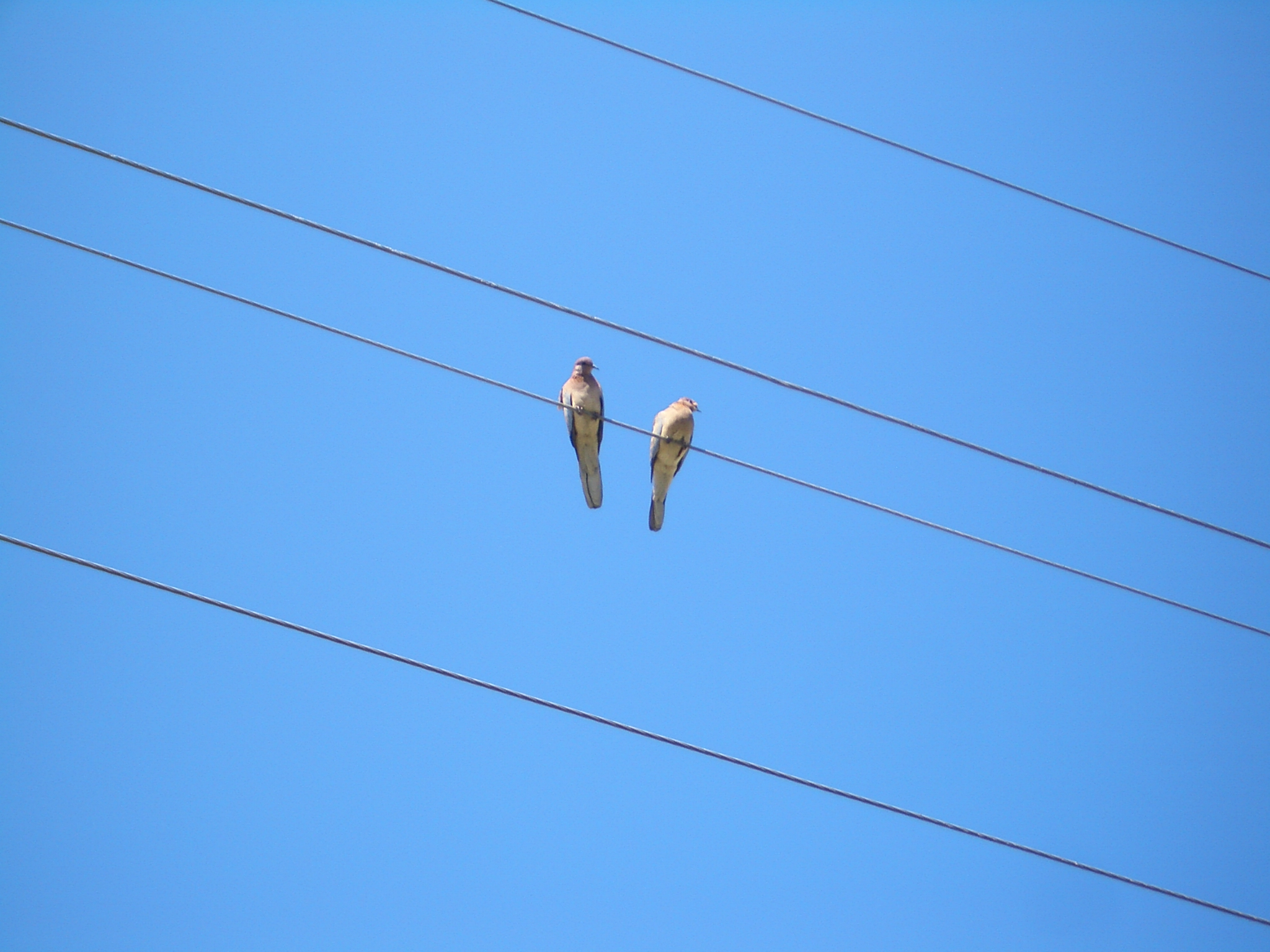 A pair of Laughing Doves sit on the electric (or telephone?) wires in Milyanfan village, in Kyrgyzstan's Chuy Valley.